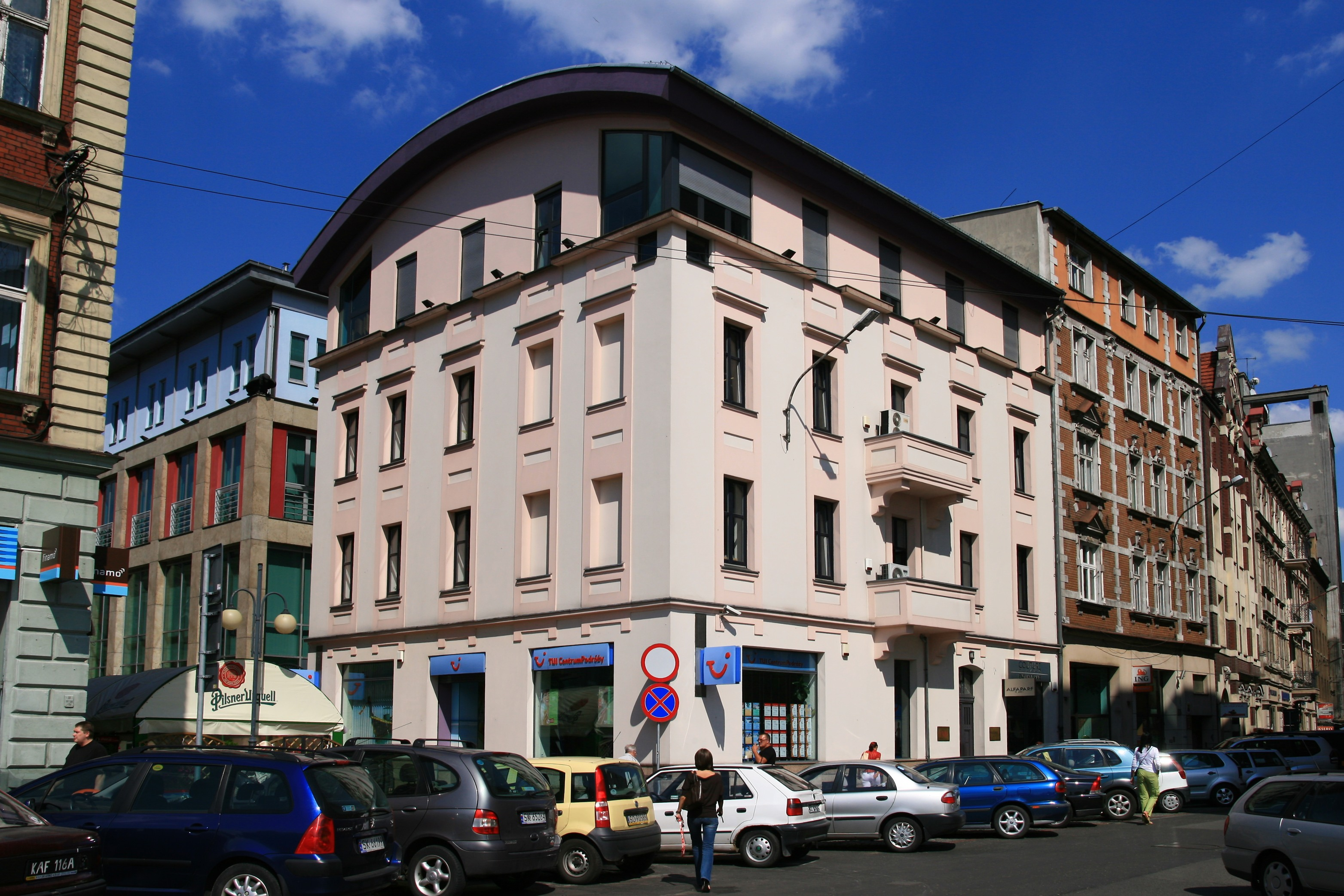 Wawelska/Młyńska Street in Katowice.